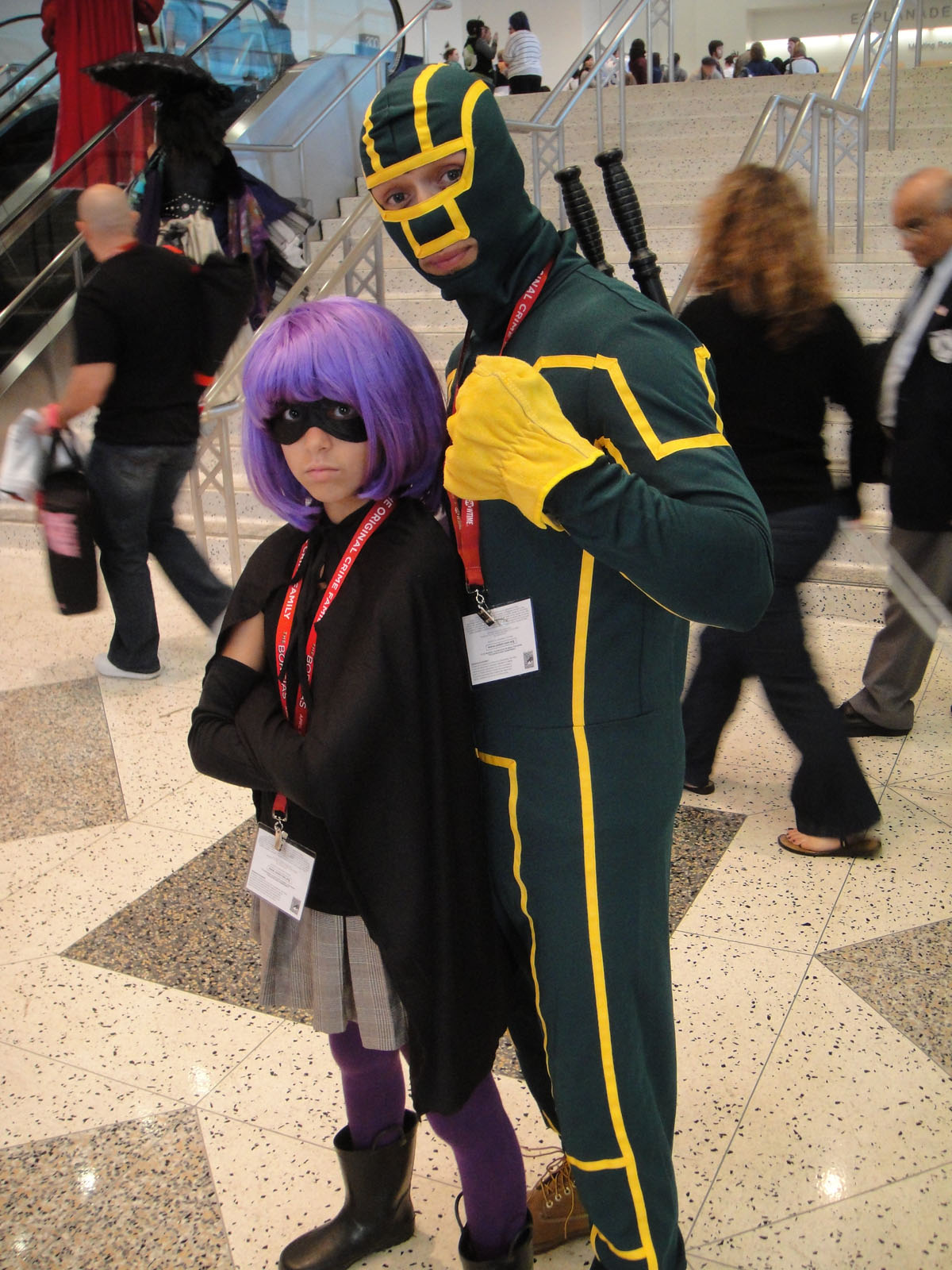 WonderCon 2011 - Hit Girl and Kick-Ass